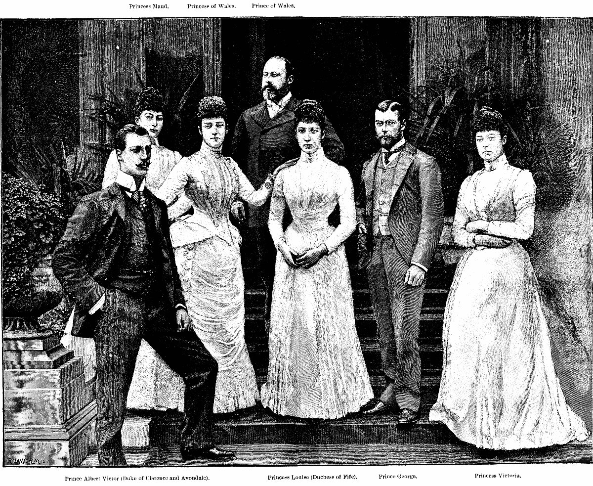 Edward VII of the United Kingdom as Prince of Wales and family - [1]